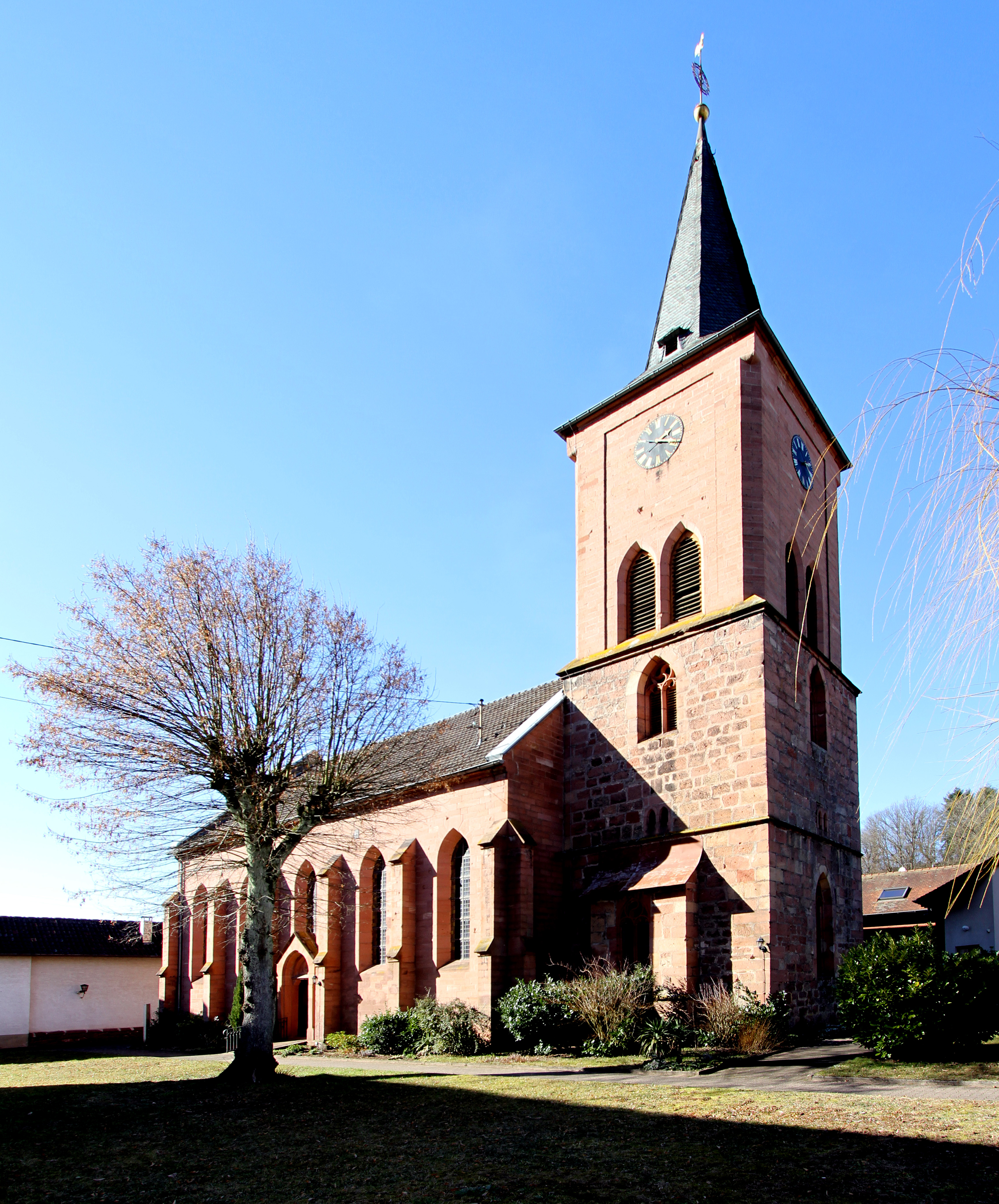 Protestant church in Vorderweidenthal.